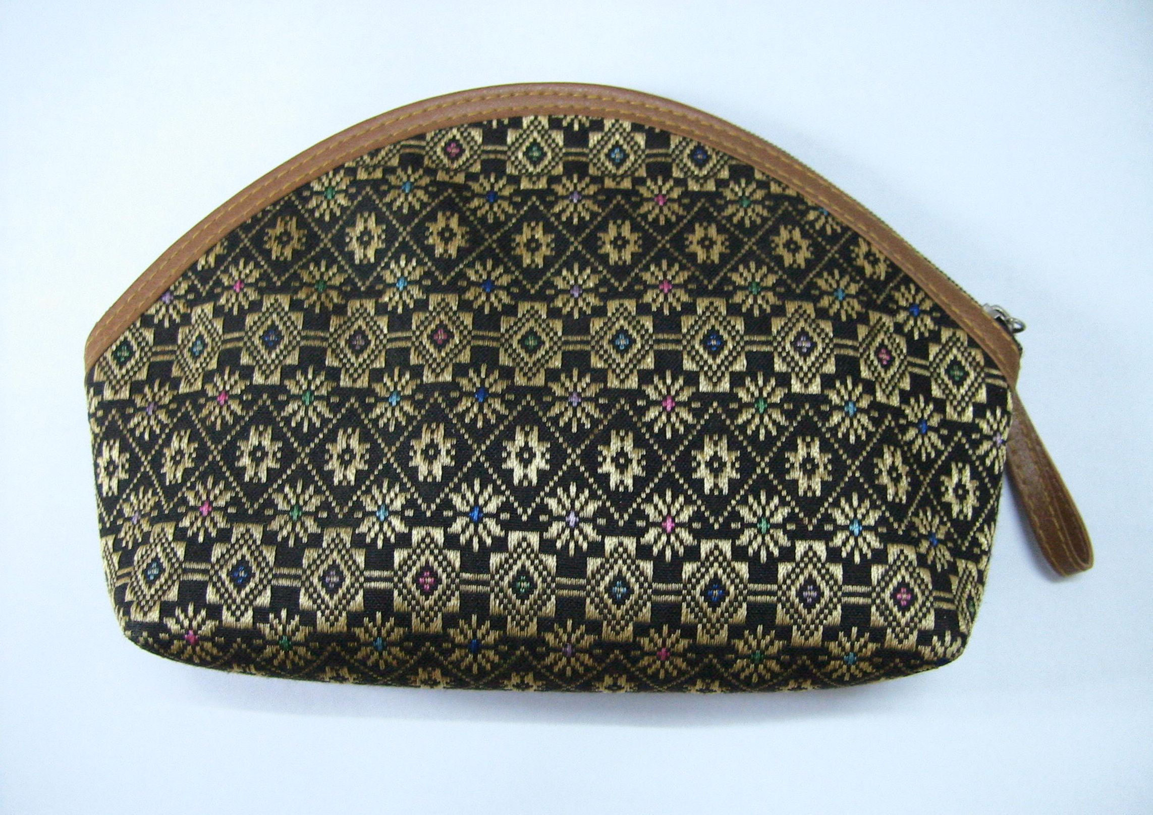 A brocade purse